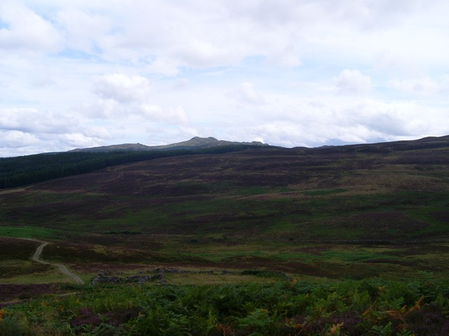 View to Meall Tairneachan From the side of Schiehallion.